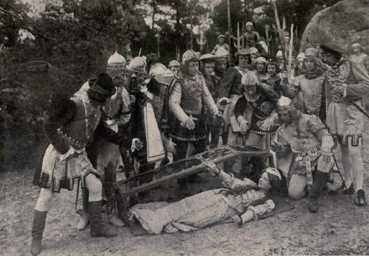 Still from the film La petite Blanche-Neige (English tilte: Little Snow White) (1910). Published in David S. Hulfish, Cyclopedia of Motion-Picture Work (1914).